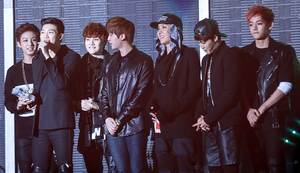 BTS win Best New Artist award at Melon Music Awards, 14 November 2013